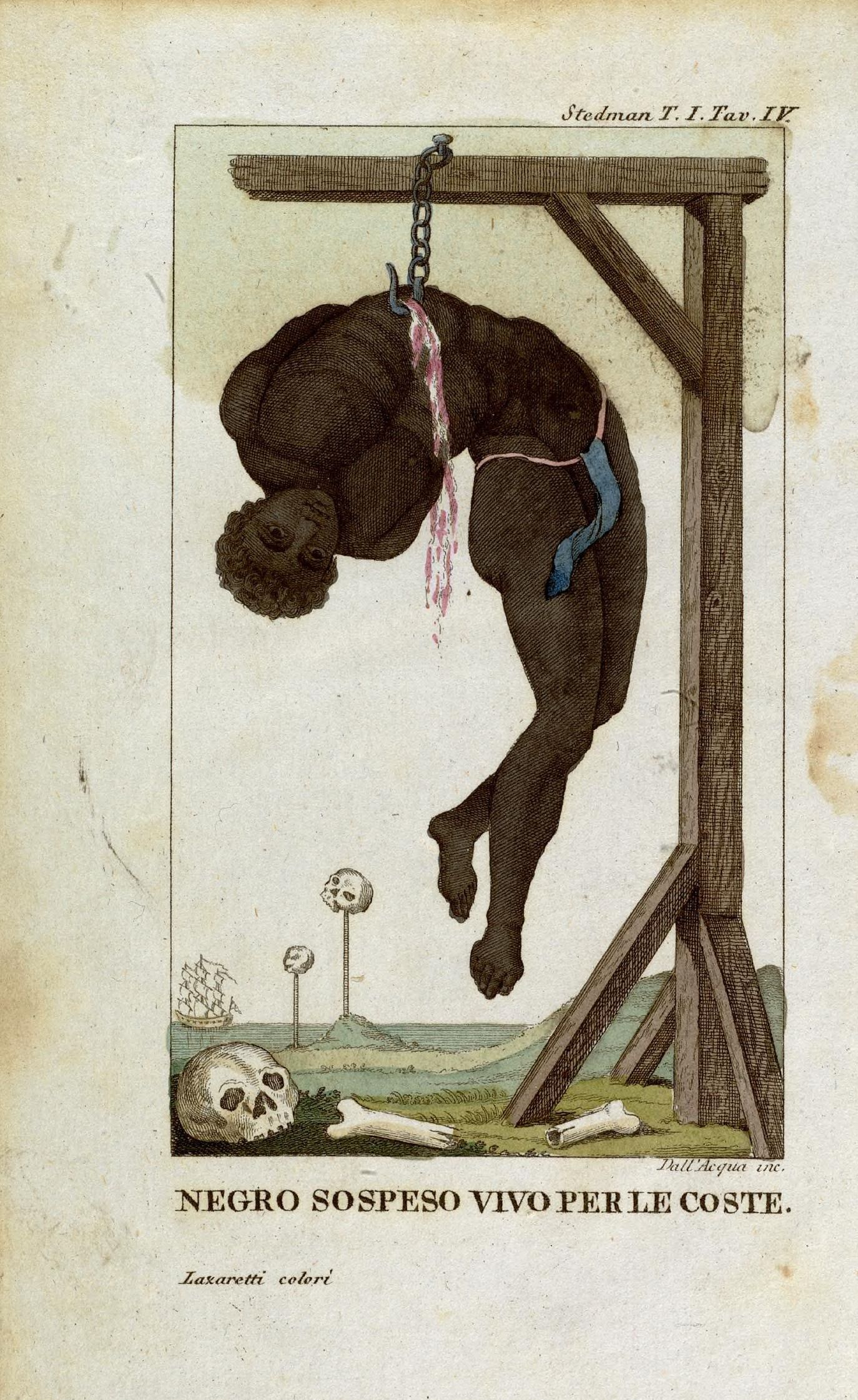 Illustration by Cristoforo dall'Acqua for a 1818 Italian translation of Captain John Stedman: A negro hung by his ribs from a gallows, 1792.